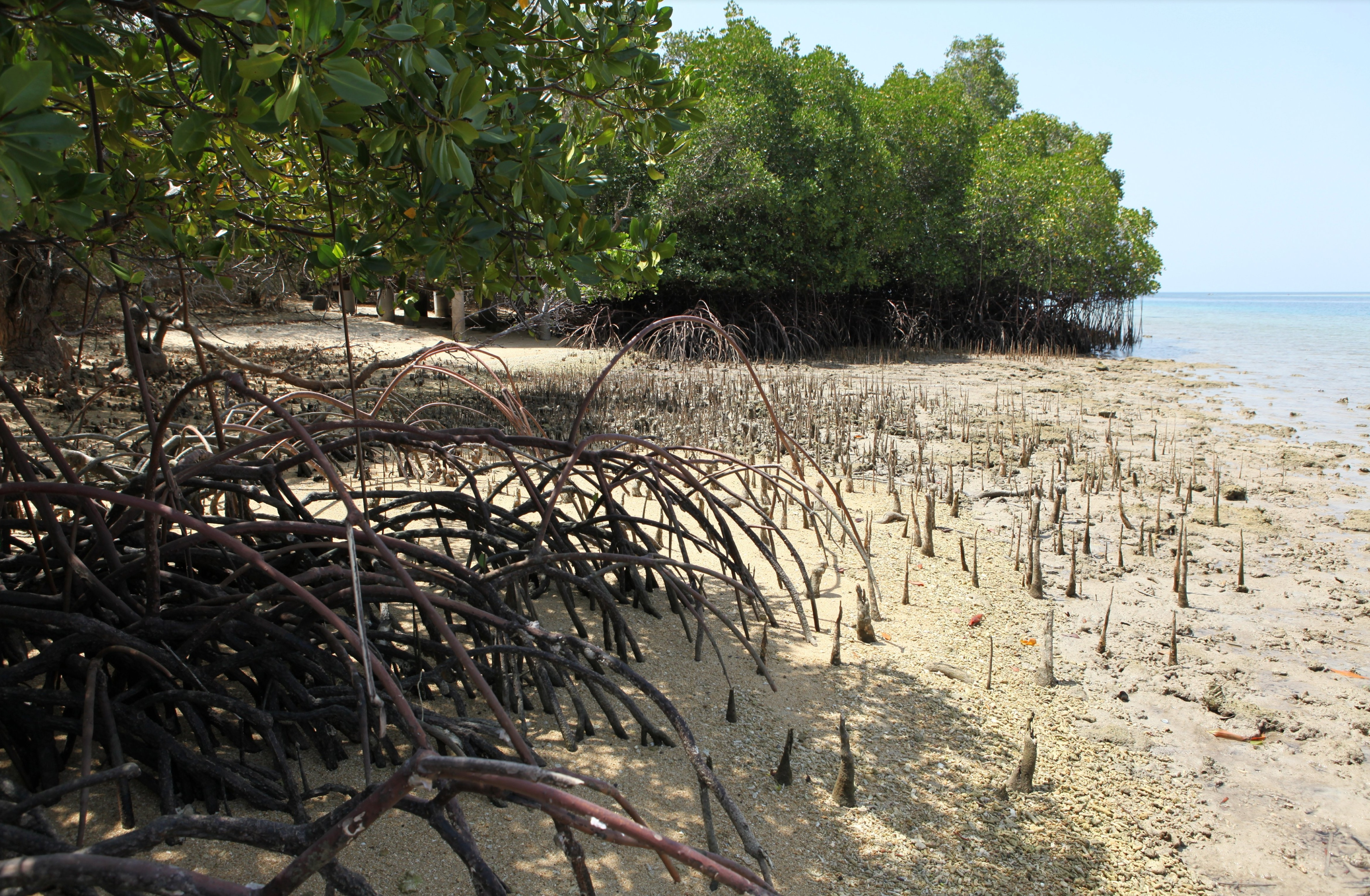 Mangroves in West Bali National Park, Indonesia